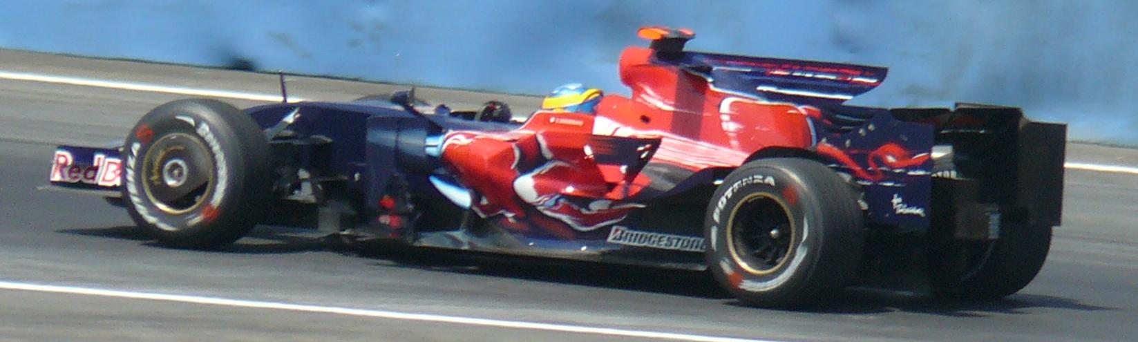 Sébastien Bourdais driving for Scuderia Toro Rosso at the 2008 European Grand Prix.